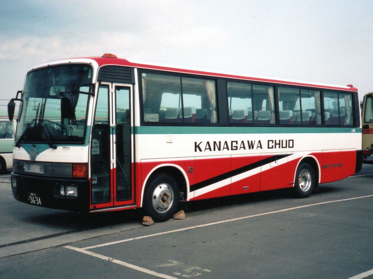 Kanachu I96（い96） Mitsubishi P-MK595J at Isehara Branch This picture is obtaining and photoing permission of the persons concerned.